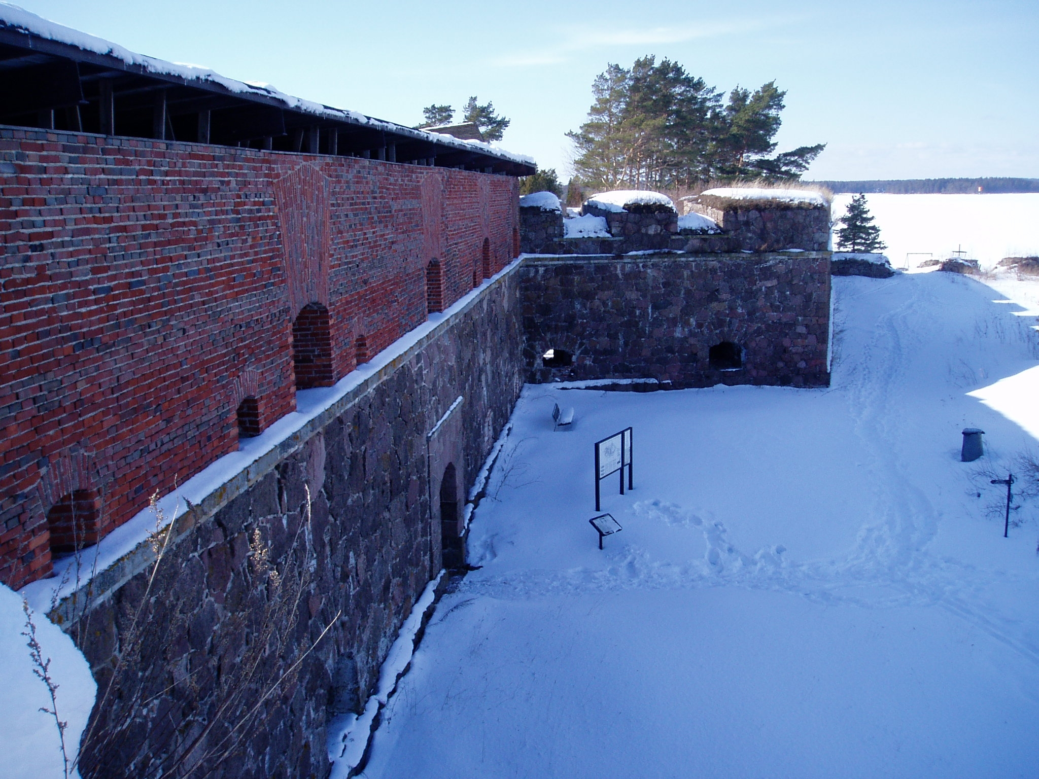 Fortress of Svartholm. Photo by Ohto Kokko.